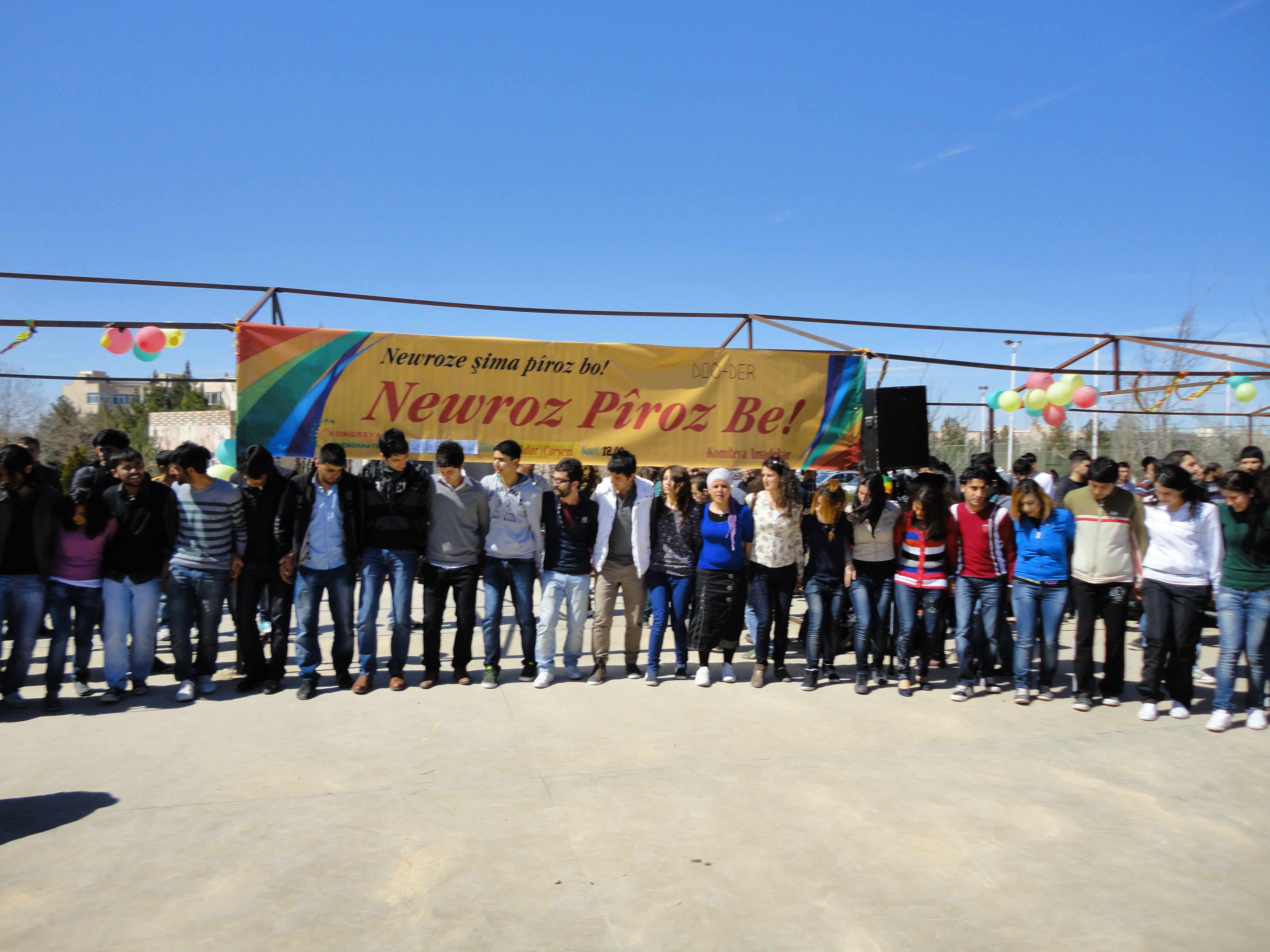 Dicle University students are celebrating Newroz, 21 March 2012Kurdî: Xwendekarên Zanîngeha Dicleyê Newrozê pîroz dikin, 21ê Adarê 2012.